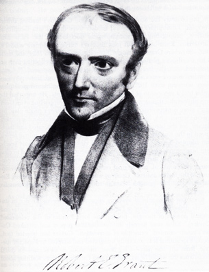 photographic reproduction of a sketch or lithograph of Robert Edmond Grant